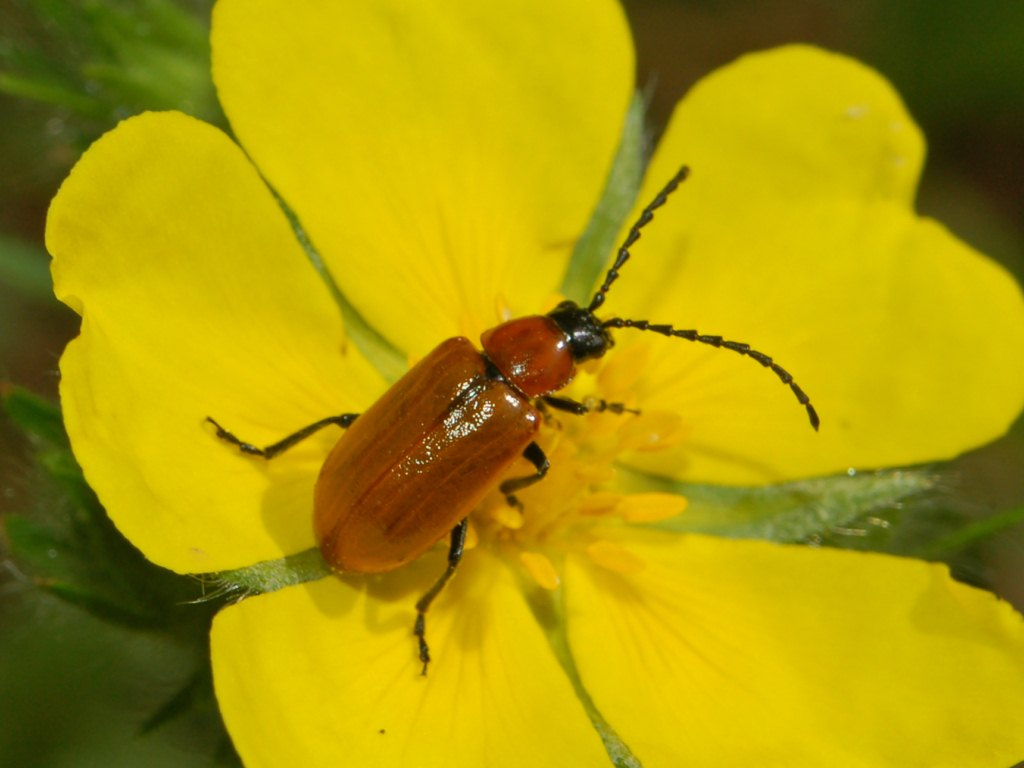 Exosoma lusitanicum